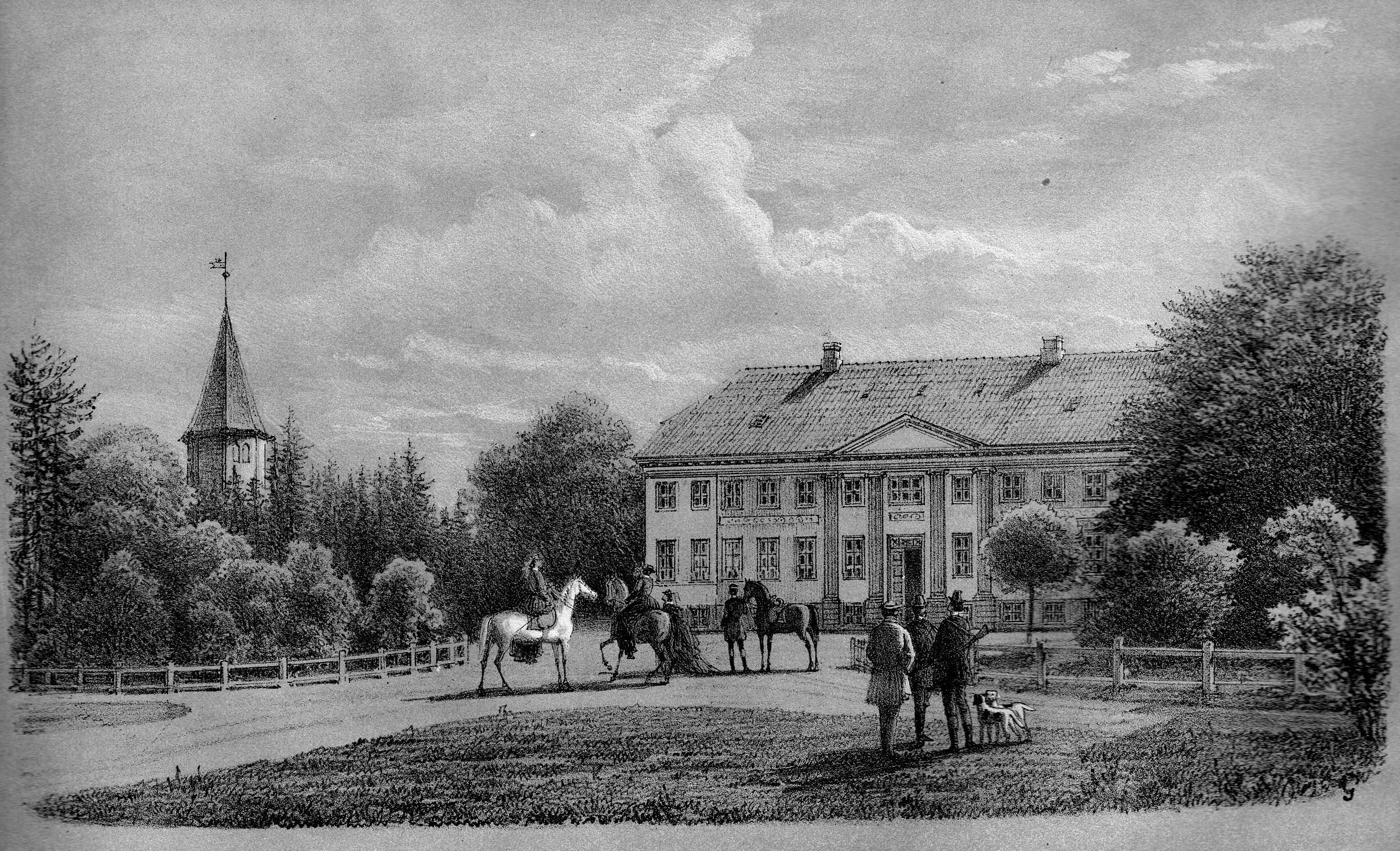 Scanned by myself from a copy of the old book in 2007. The book was graciously lent to me by Det Kongelige Garnisonsbibliotek.